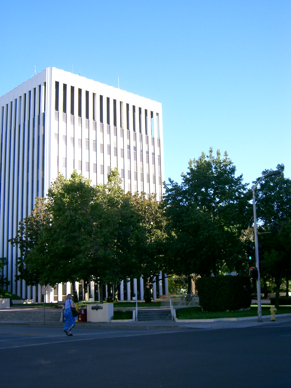 Photograph of Palo Alto City Hall.